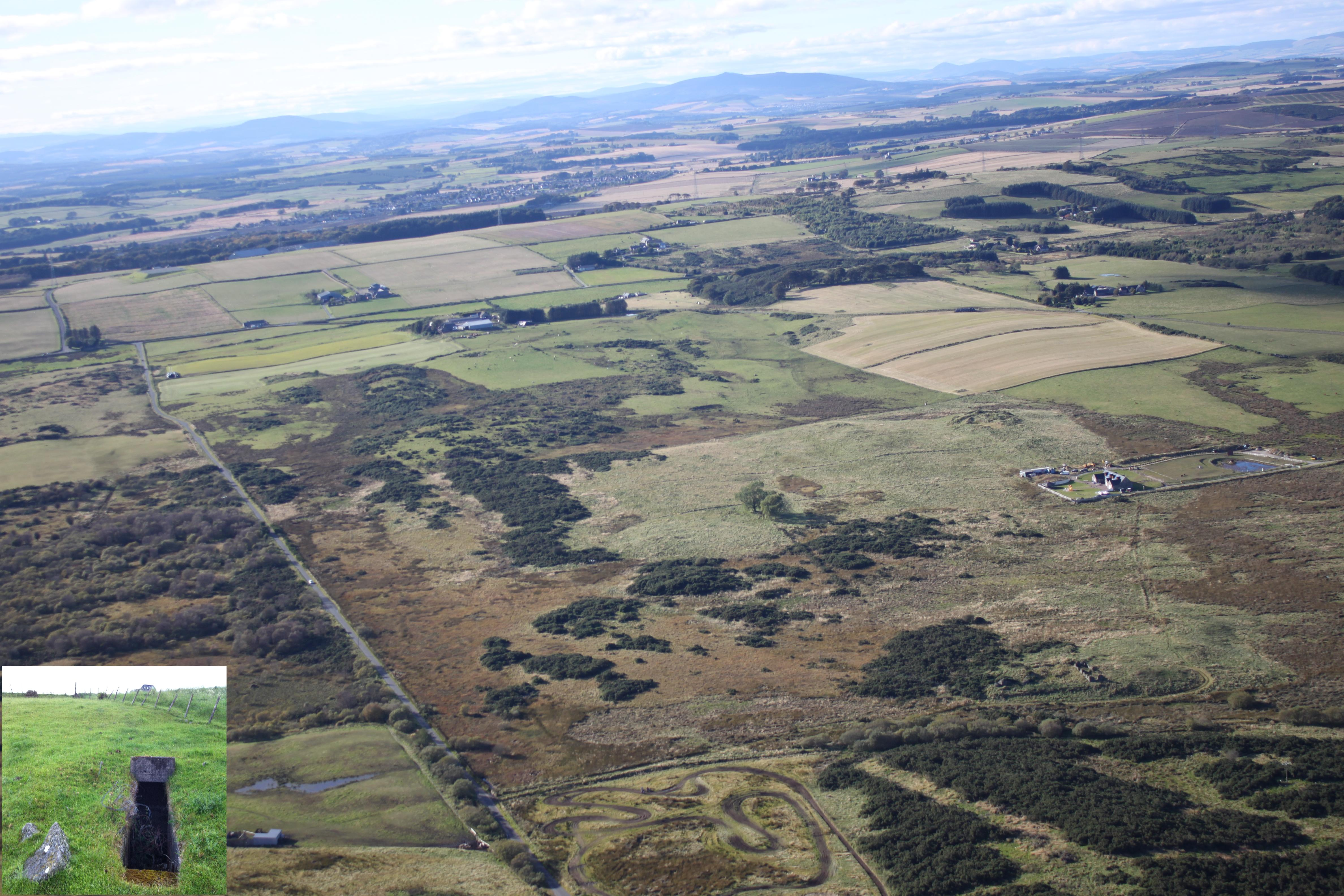 Take by cabro Aviation in November 2012, the decoy airfield at Whitecairns. The picture also shows the neterance to the control bunker